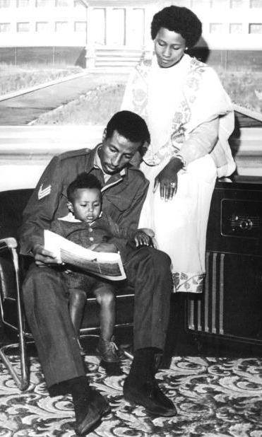 Ethiopian marathon runner Abebe Bikila with his wife Yewebdar and son Dawit